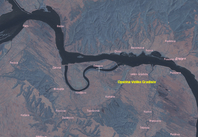 Satellite image of Silver Lake, Serbia